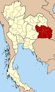 Map of Thailand highlighting the extent of the Roman Catholic diocese of Ubon Ratchathani.